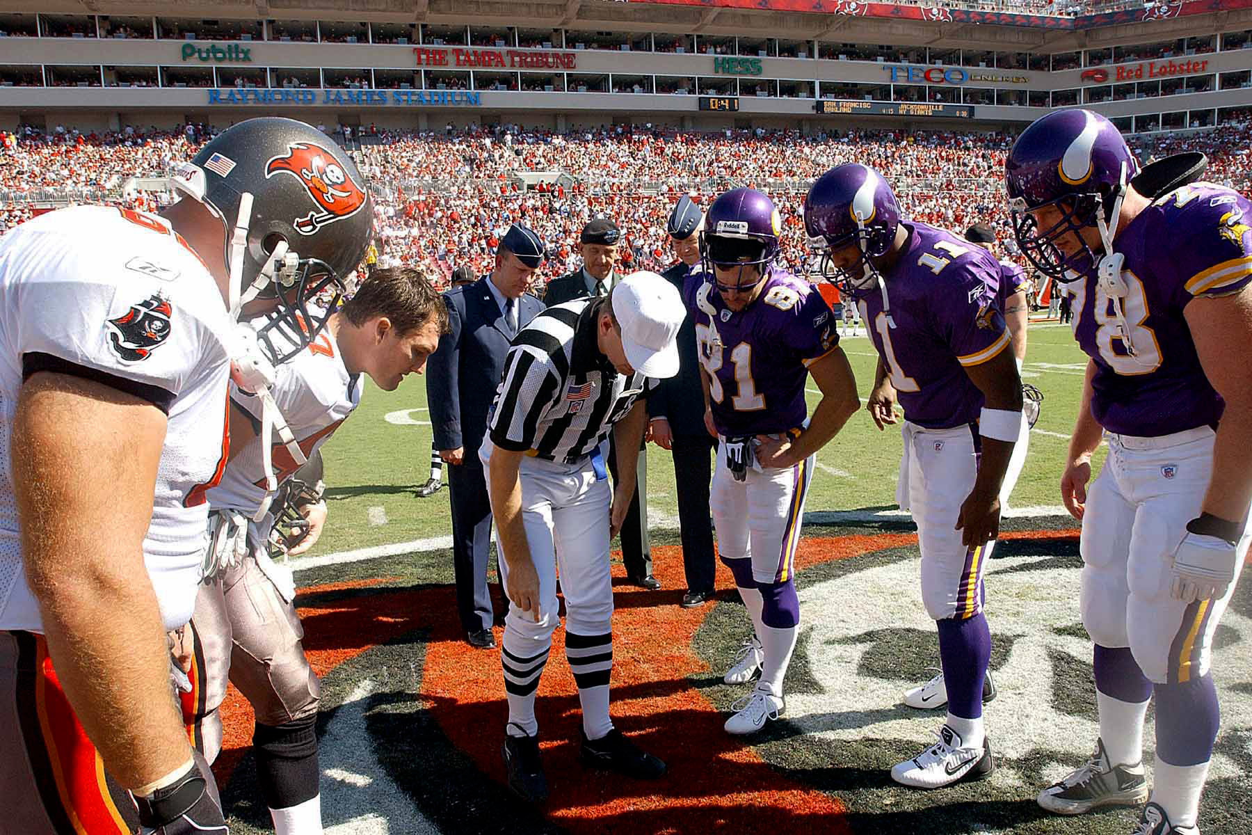 Opening Ceremonies for Vikings @ Buccaneers, NFL season 2002. For Vikings, from left to right, Chris Walsh, Daunte Culpepper and Matt Birk.